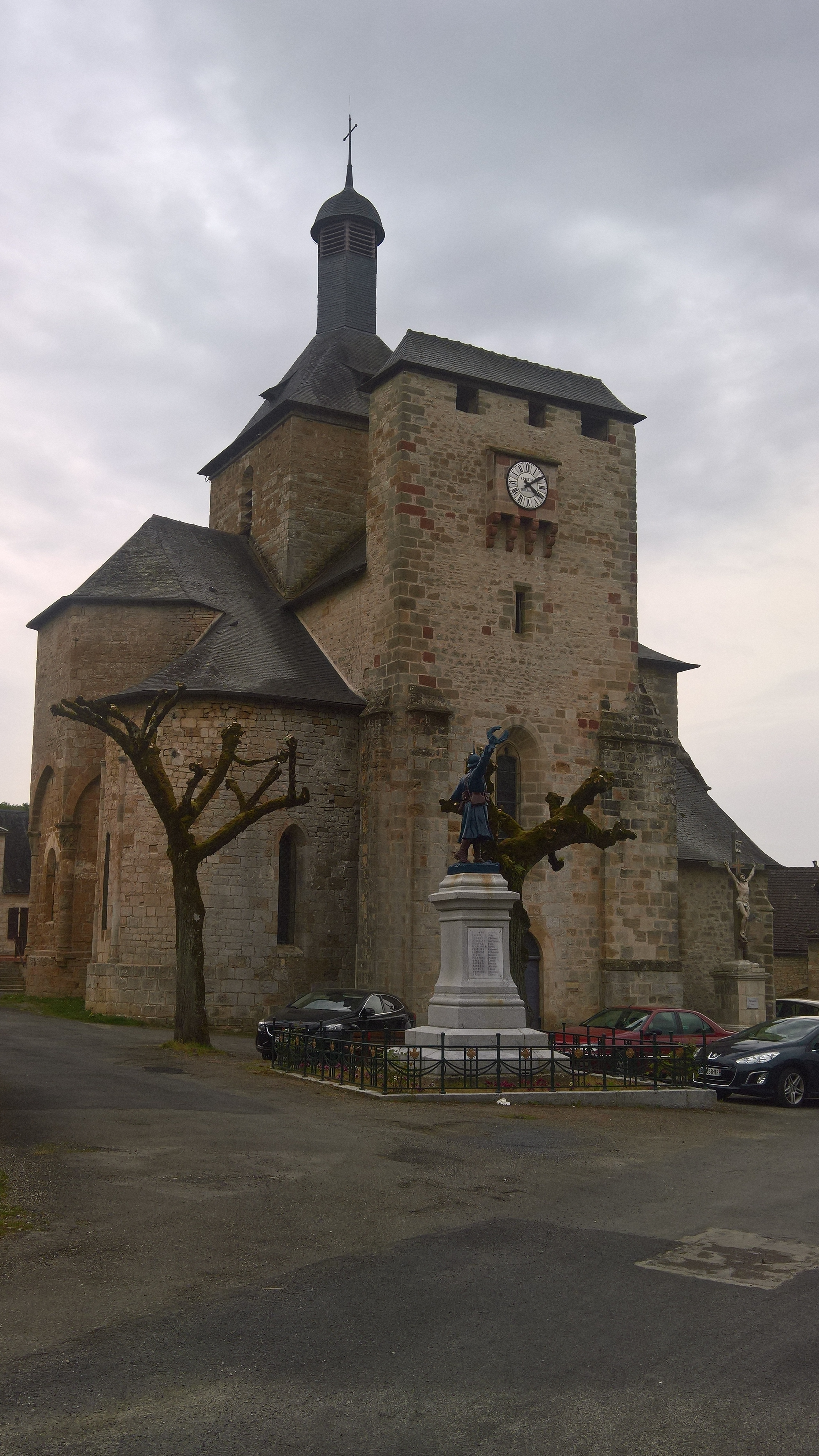 Fortified church Saint-Michel-de-Bannières